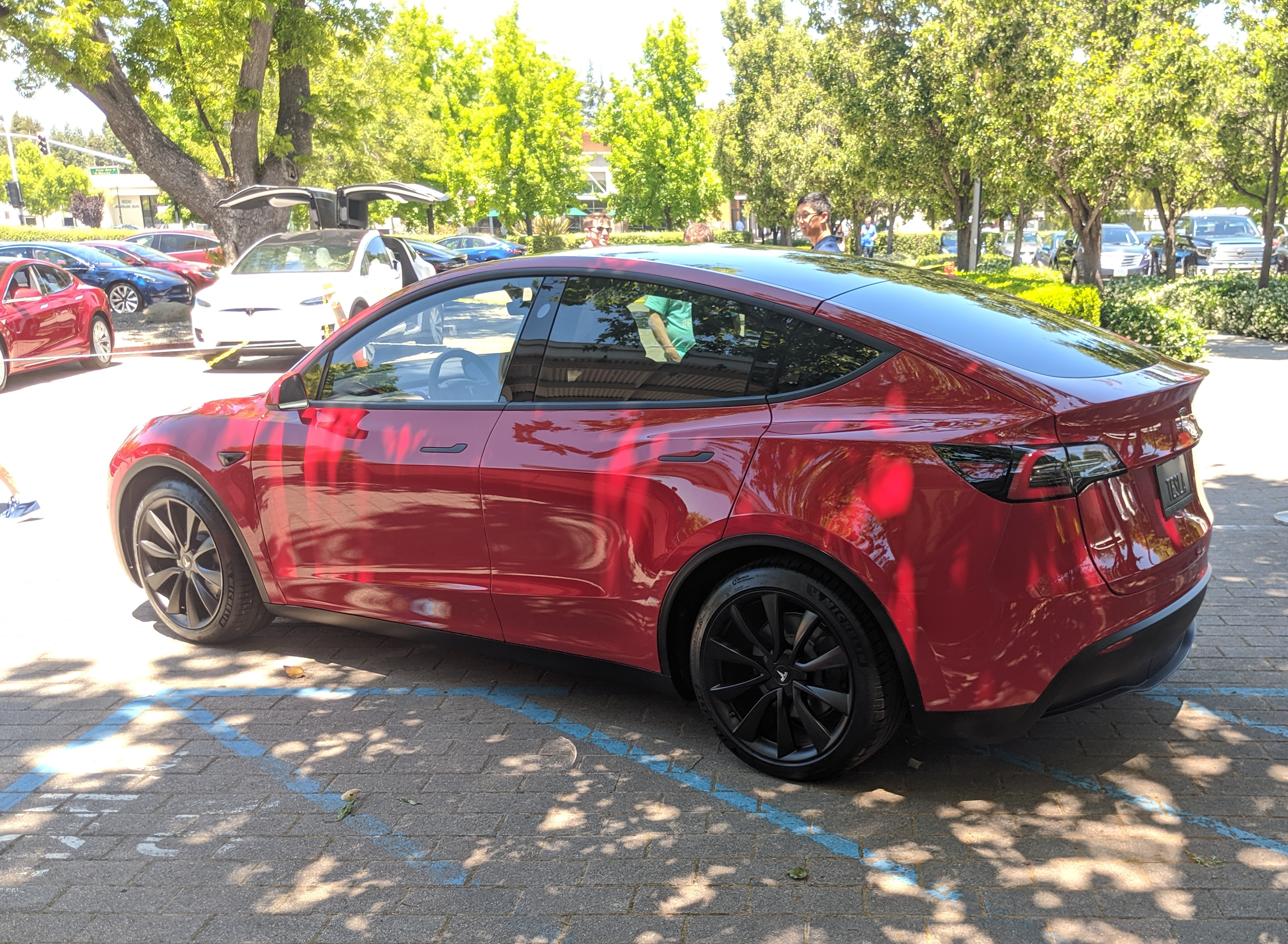 Tesla Model Y driver side view, taken at investor conference